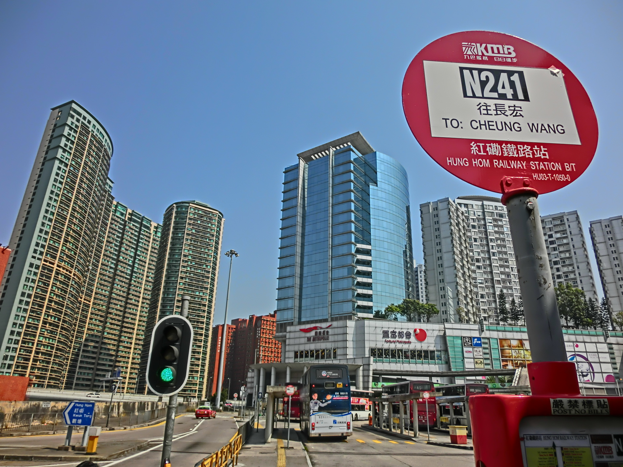 紅磡站巴士總站, Hung Hom Railway Station Bus Terminus, Cheong Wan Road, Hung Hom, Hong Kong